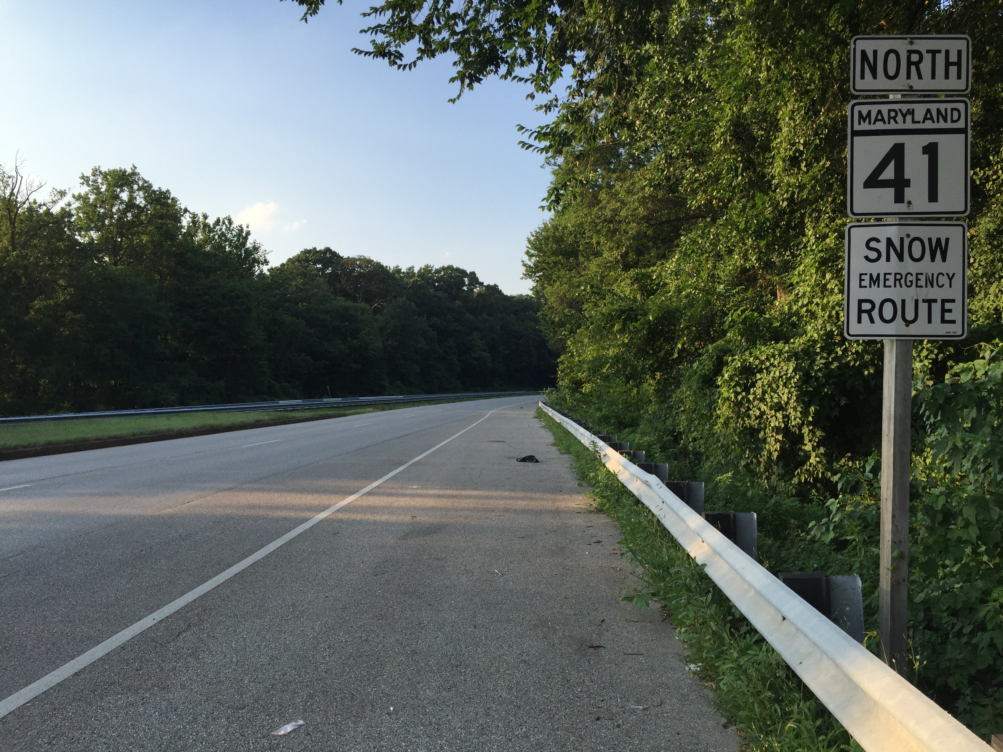 View north along Maryland State Route 41 (Perring Parkway) just north of Taylor Avenue in Parkville, Baltimore County, Maryland